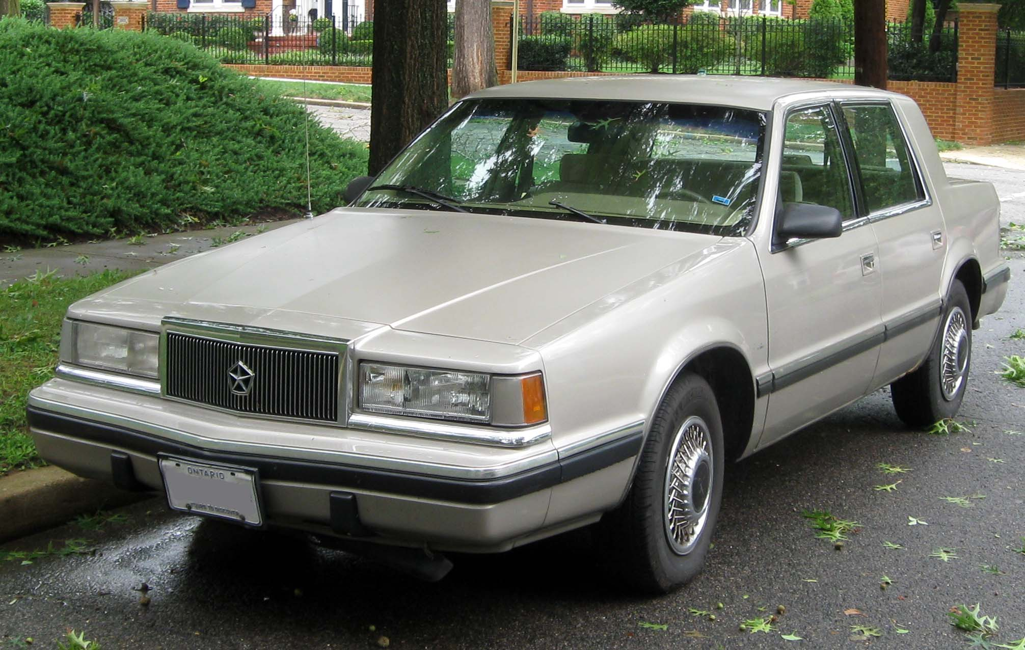 Canadian-spec Chrysler Dynasty photographed in Washington, D.C., USA.